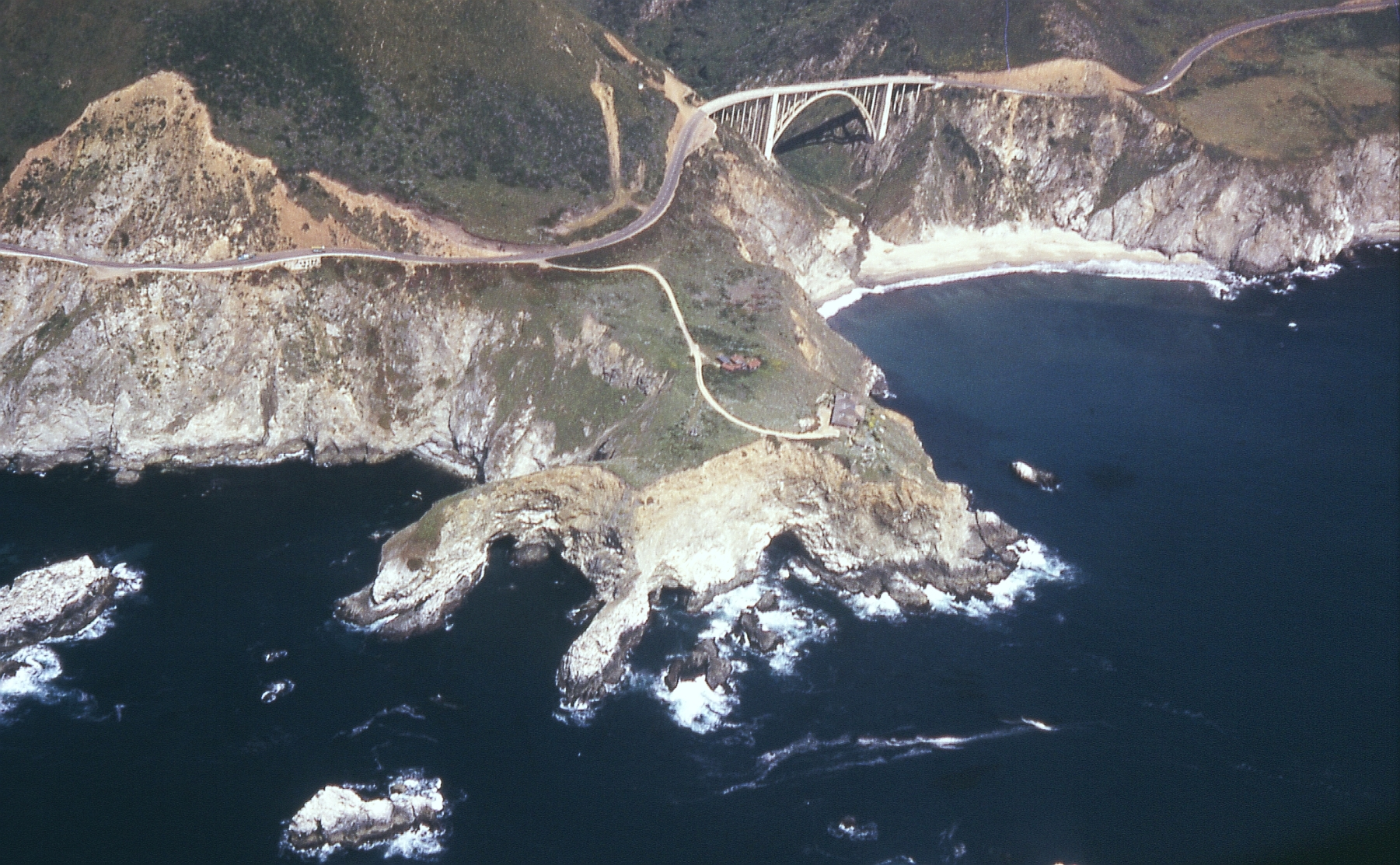 California Big Sur coastline with the Bixby Bridge, near the outcropping of rocks which resembles a dinosaur. Taken with a 35mm Exakta VX, using Ektachrome slide film.